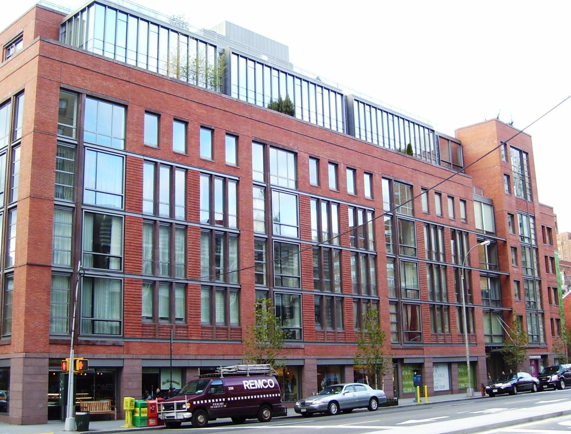 Chelsea Enclave, at 177 Ninth Avenue between 20th and 21st Street in the Chelsea neighborhood of Manhattan, New York City, occupies a site that until 2008 was the main entrance of the General Theological Seminary. In need of funds to renovate their other facilities, the Seminary sold development rights to this location for a building, designed by the Polshek Partnership, of 53 residential condominiums along with a new library and other amenities for the seminarians. The building was completed in 2010 and is part of the Chelsea Historic District. (Source: [1])